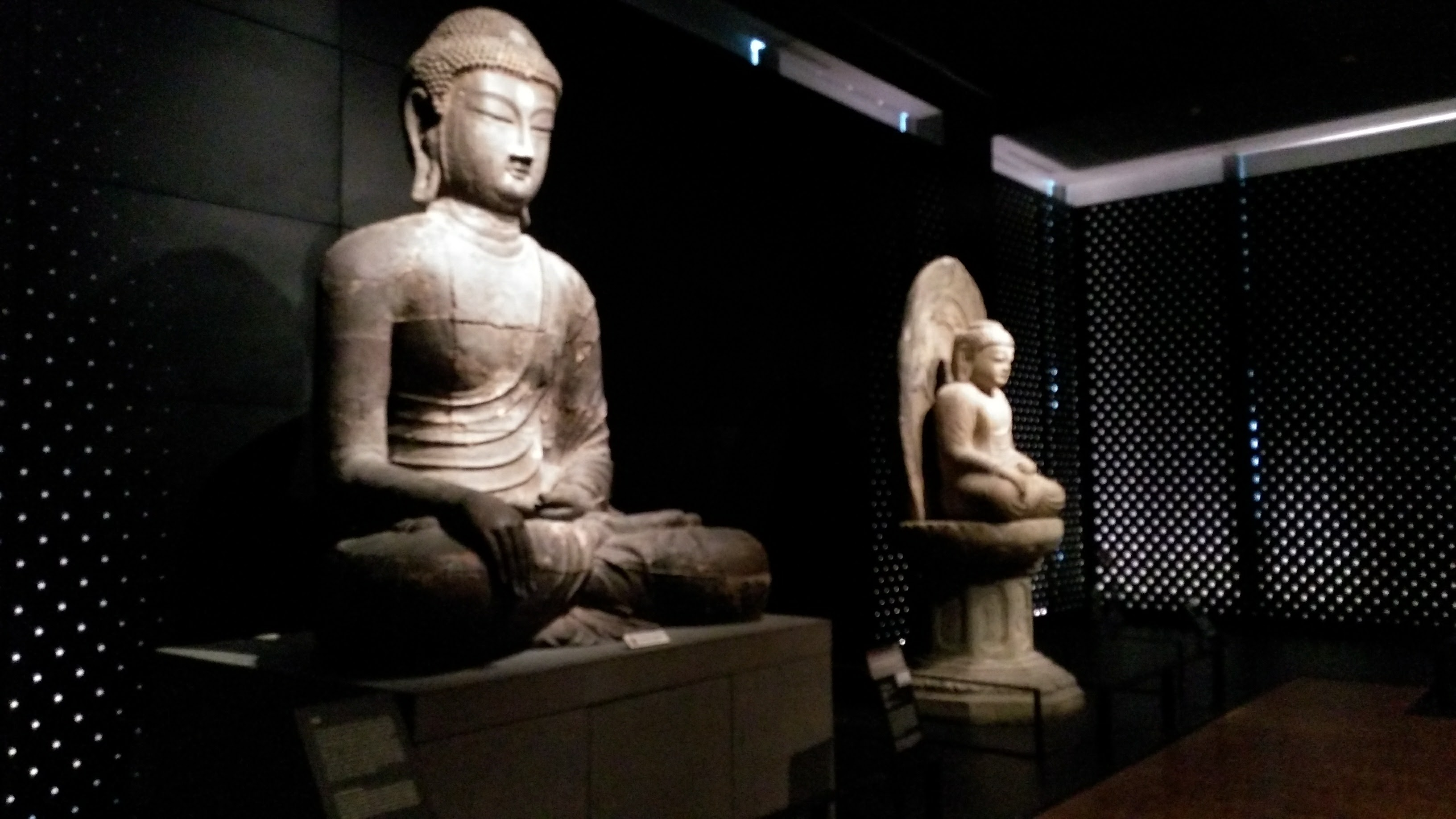 National Museum of Korea, objects